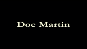 Self-taken screen shot of Doc Martin logo.